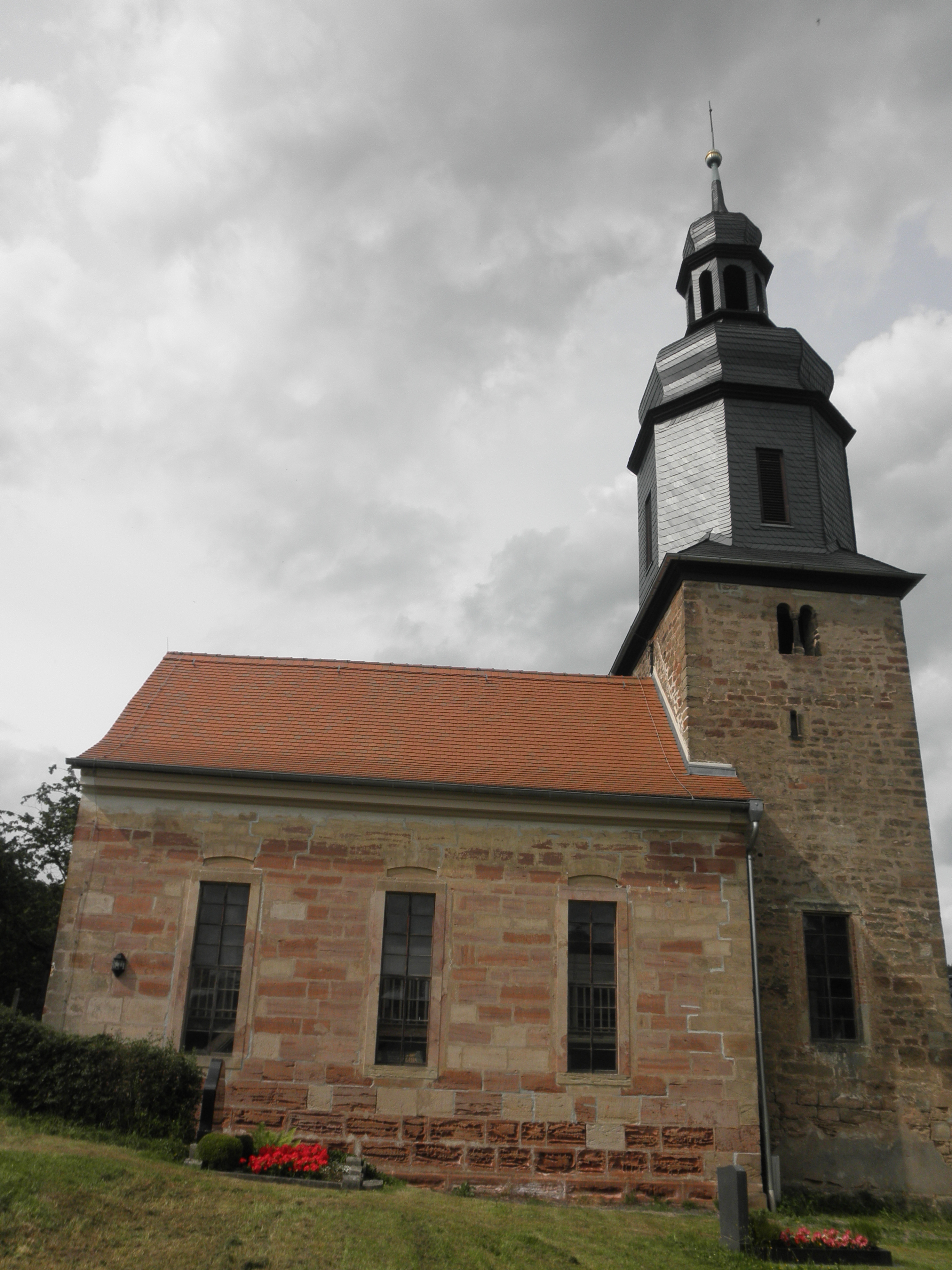 Church in Weißbach in Thuringia